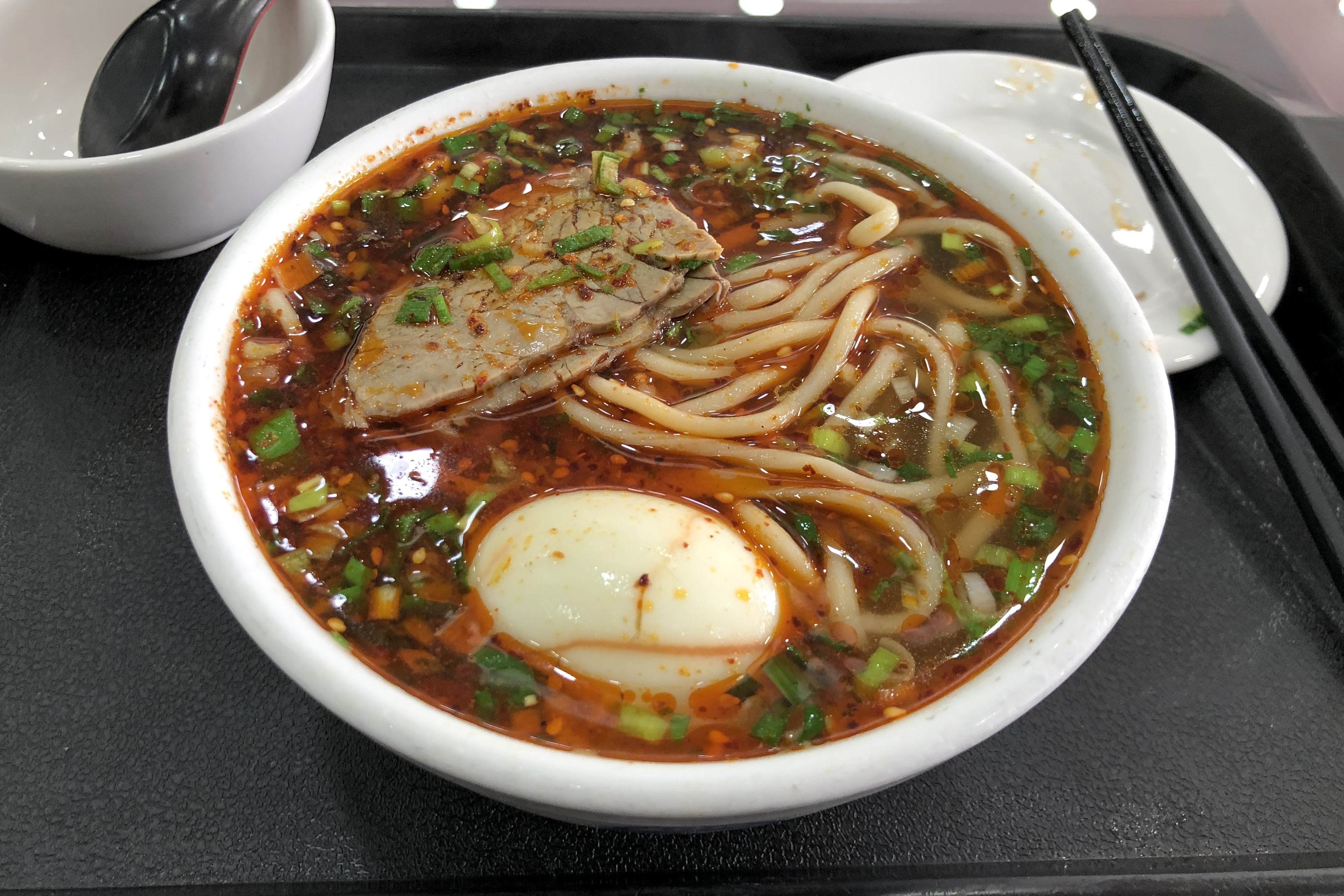 Served at Dongfanggong, Tianzhu, Beijing. 5mm, as thick as udon... sold for CNY27 with a plate of beef and a boiled egg.